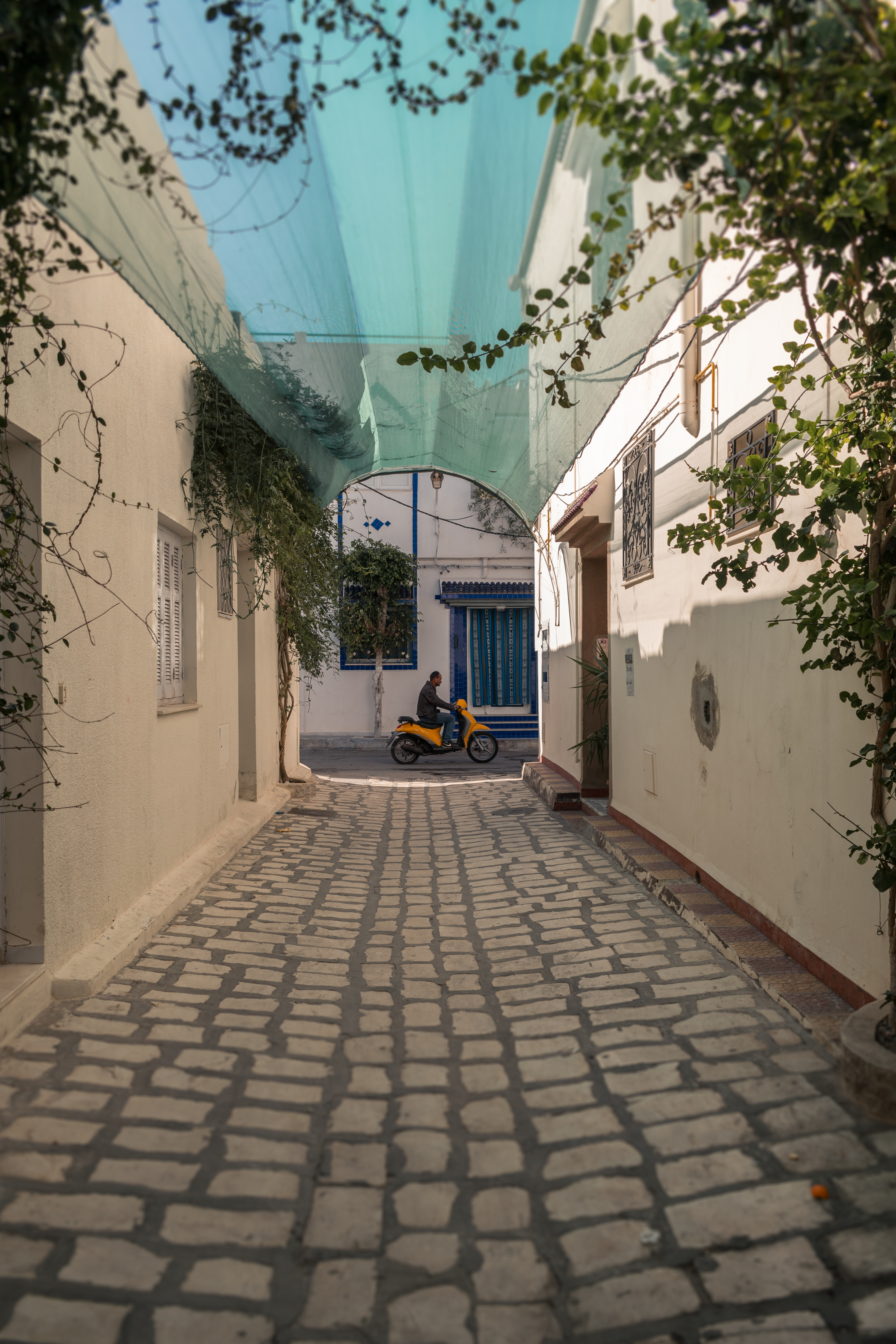 This is an image with the theme "Africa on the Move or Transport" from: Tunisia